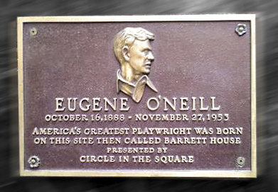 Birthplace of playwright Eugene O'Neill (1888–1953): public plaque outside 1500 Broadway (Times Square) in New York City.